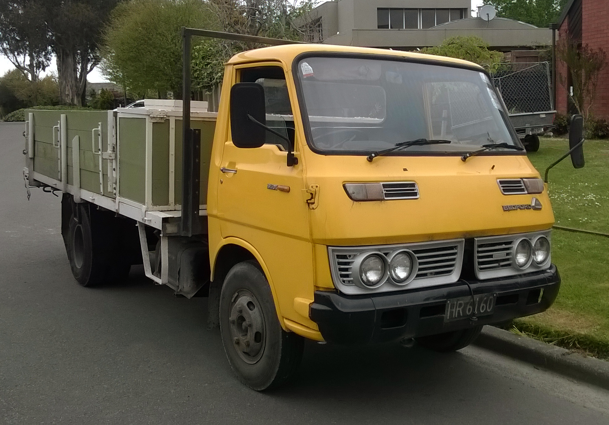 I got a nice surprise seeing this rare truck this afternoon. The owner was working in the garden in the background and I spoke to him briefly about it. He has owned it for 32 years, and still uses it daily for his business. These early Isuzus were sold as 'Bedford-Isuzu' in Australia and New Zealand in an attempt to boost sales of Isuzu trucks by associating the brand with the trusted Bedford marque.